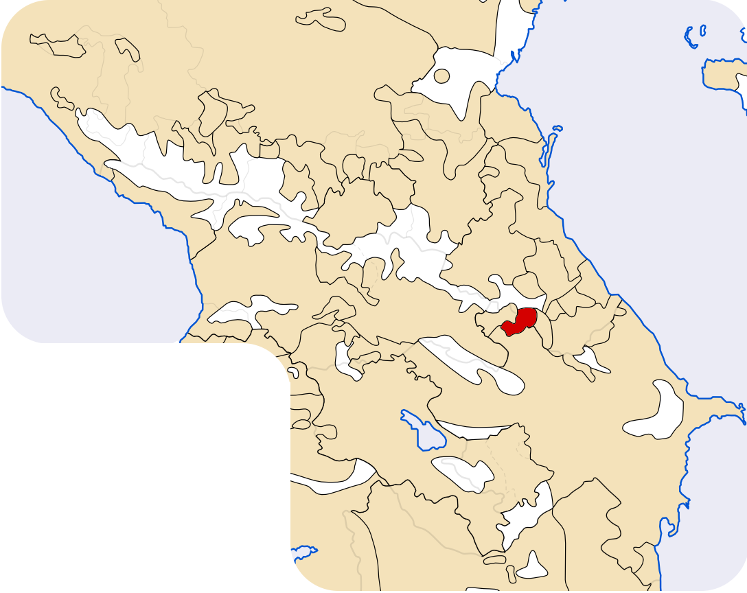 Location map of the Tsakhur people.